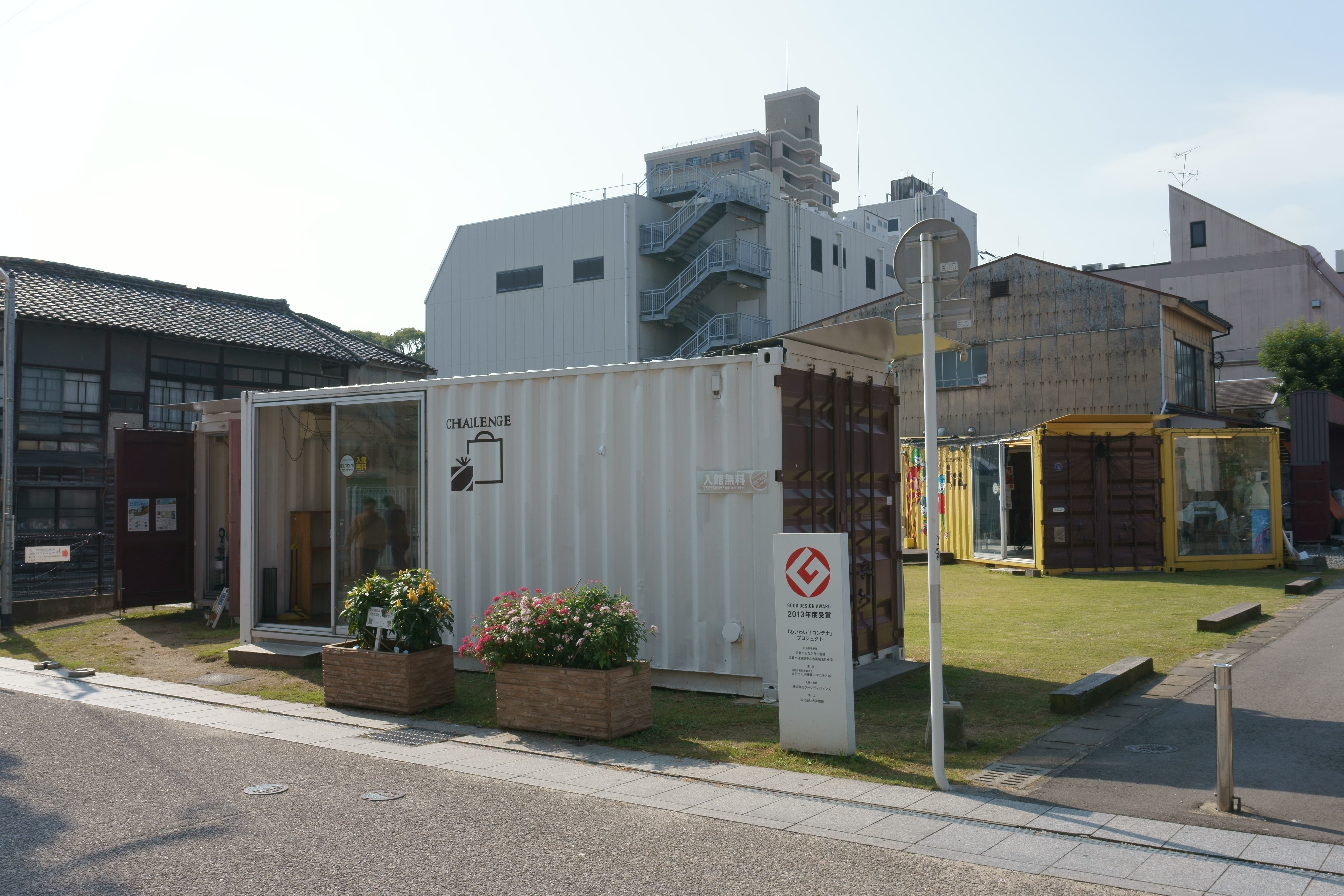 Containers for challange to start a business at the square facing the Gofukumachi shopstreet in Saga city, Saga prefecture.